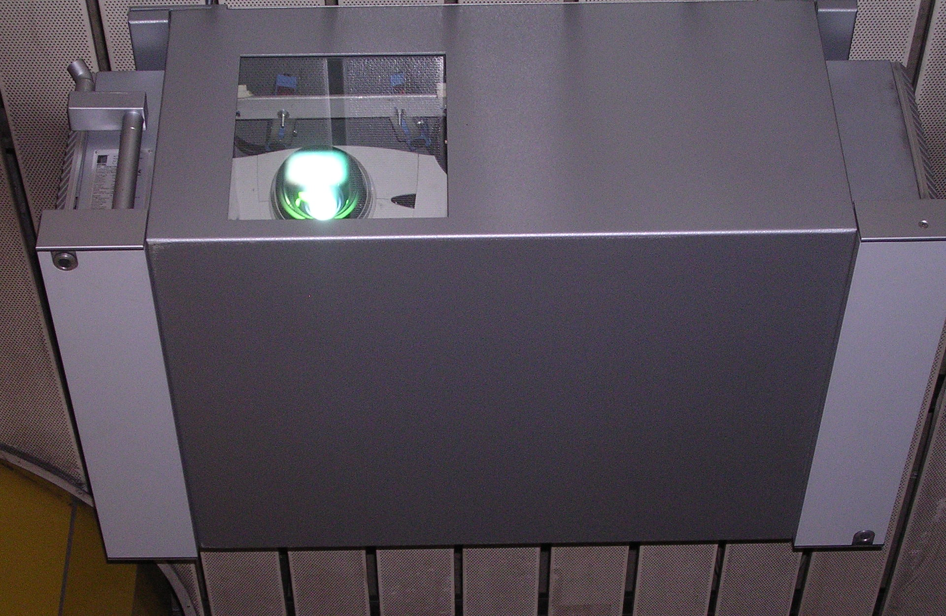 advertising video projector device in a munich S-Bahn station.